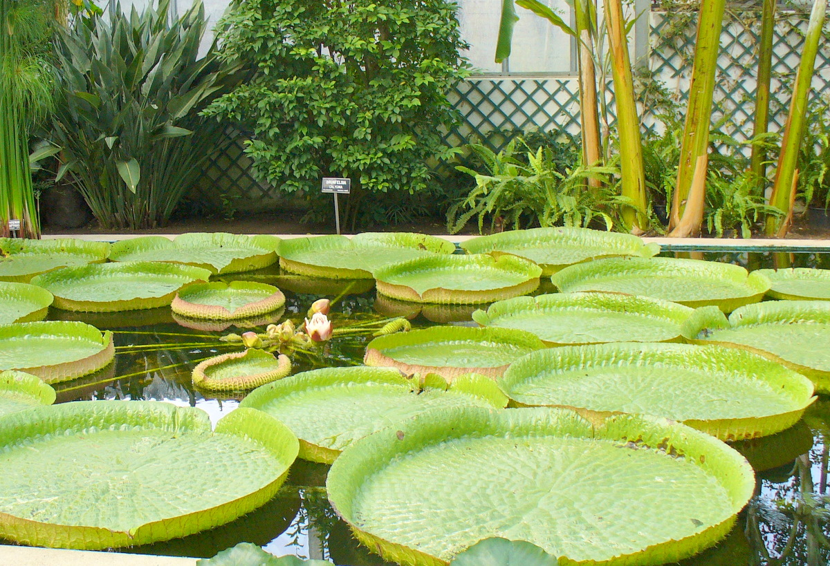 Giant water lily, Villa Taranto, Lago Maggiore